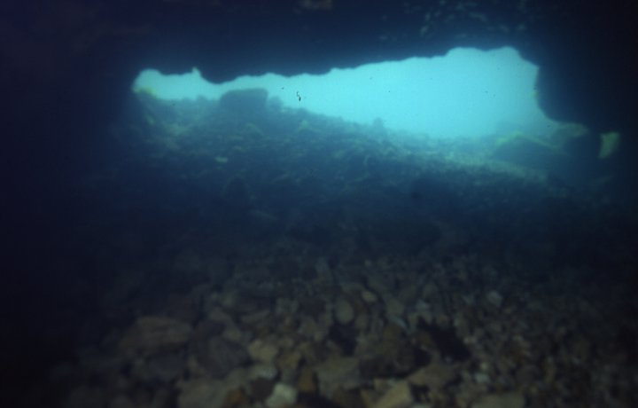 Roubidoux cave looking out